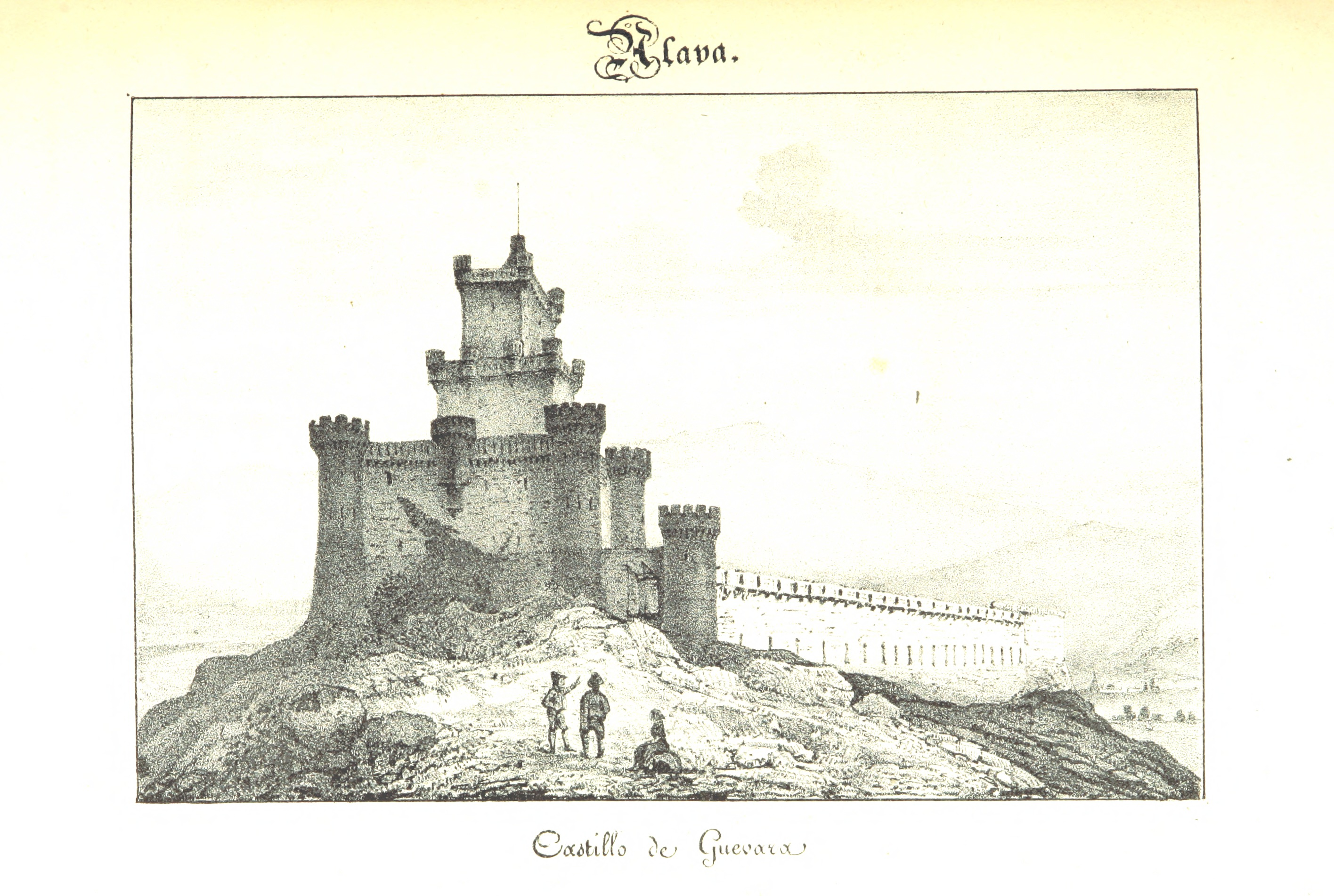 Image taken from: Title: "Revista pintoresca de las provincias Bascongadas. Edicion de lujo. Adornada con vistas ... por S. Lambla. Escrita por L. M. de E. y A. A. y H. Entrega 1-45" Author: E., L. M. de - and A. y H. (A.) Contributor: A. y H., A. Contributor: LAMBLA, Julio. Shelfmark: "British Library HMNTS 10161.f.16." Page: 435 Place of Publishing: Bilbao Date of Publishing: 1844 Issuance: monographic Identifier: 001024664 Explore: Find this item in the British Library catalogue, 'Explore'. Download the PDF for this book (volume: 0) Image found on book scan 435 (NB not necessarily a page number) Download the OCR-derived text for this volume: (plain text) or (json) Click here to see all the illustrations in this book and click here to browse other illustrations published in books in the same year. Order a higher quality version from here.